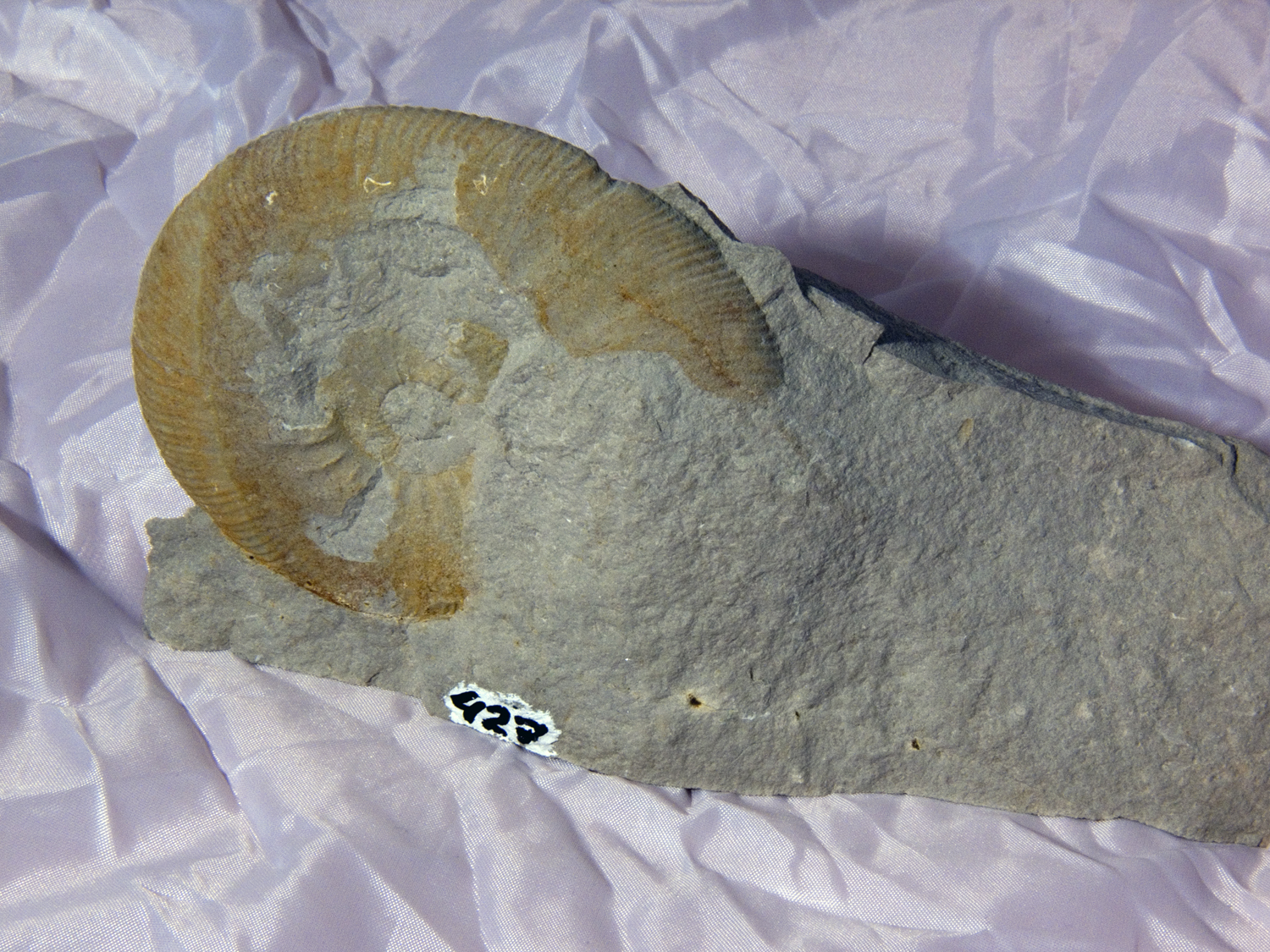 Ataxioceras, found in Graefenberg, Bavaria/germany